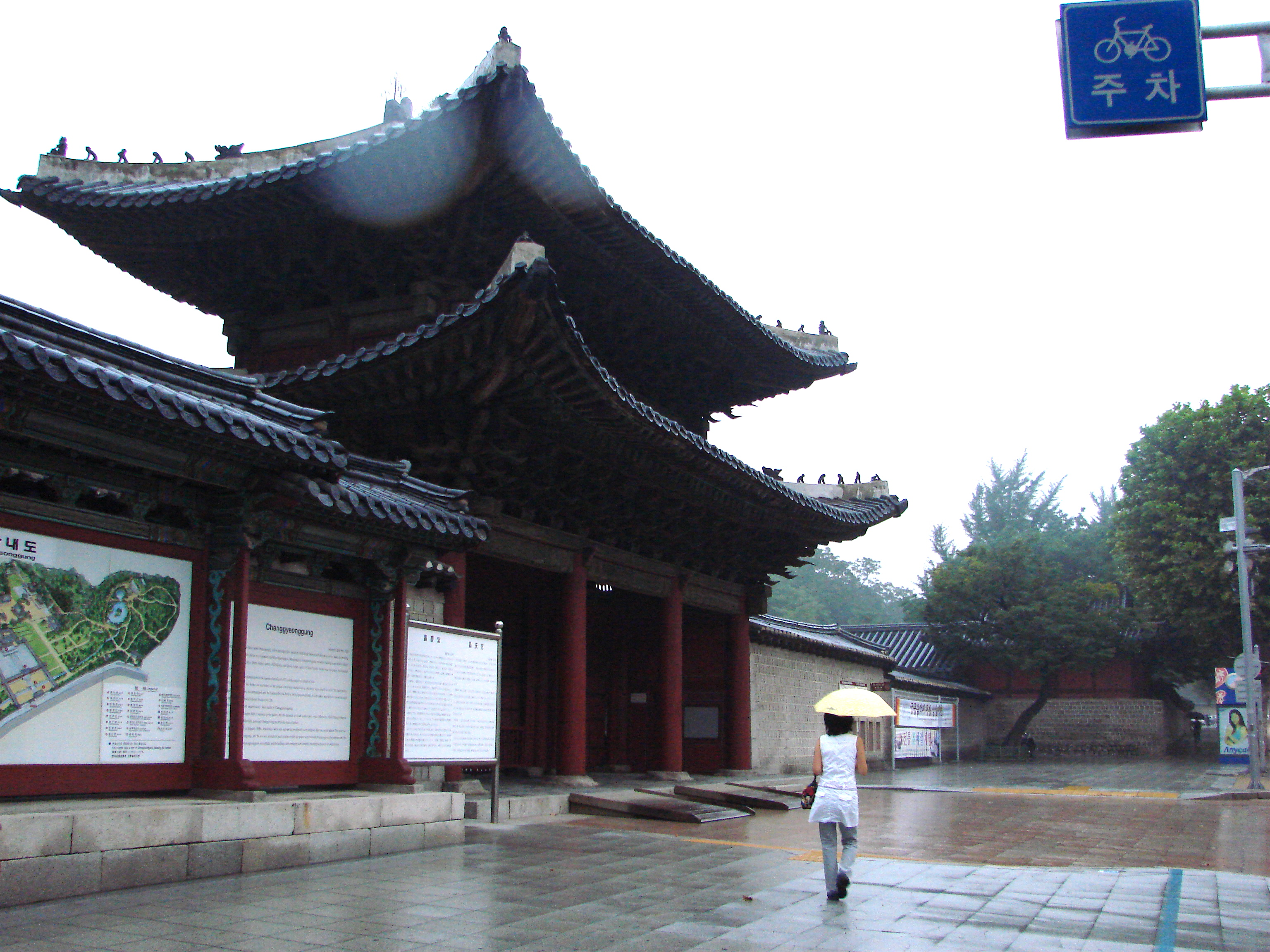 The entrance of Gyeongbokgung which is one of the five royal palaces of Joseon Dynasty located in Seoul, South Korea.